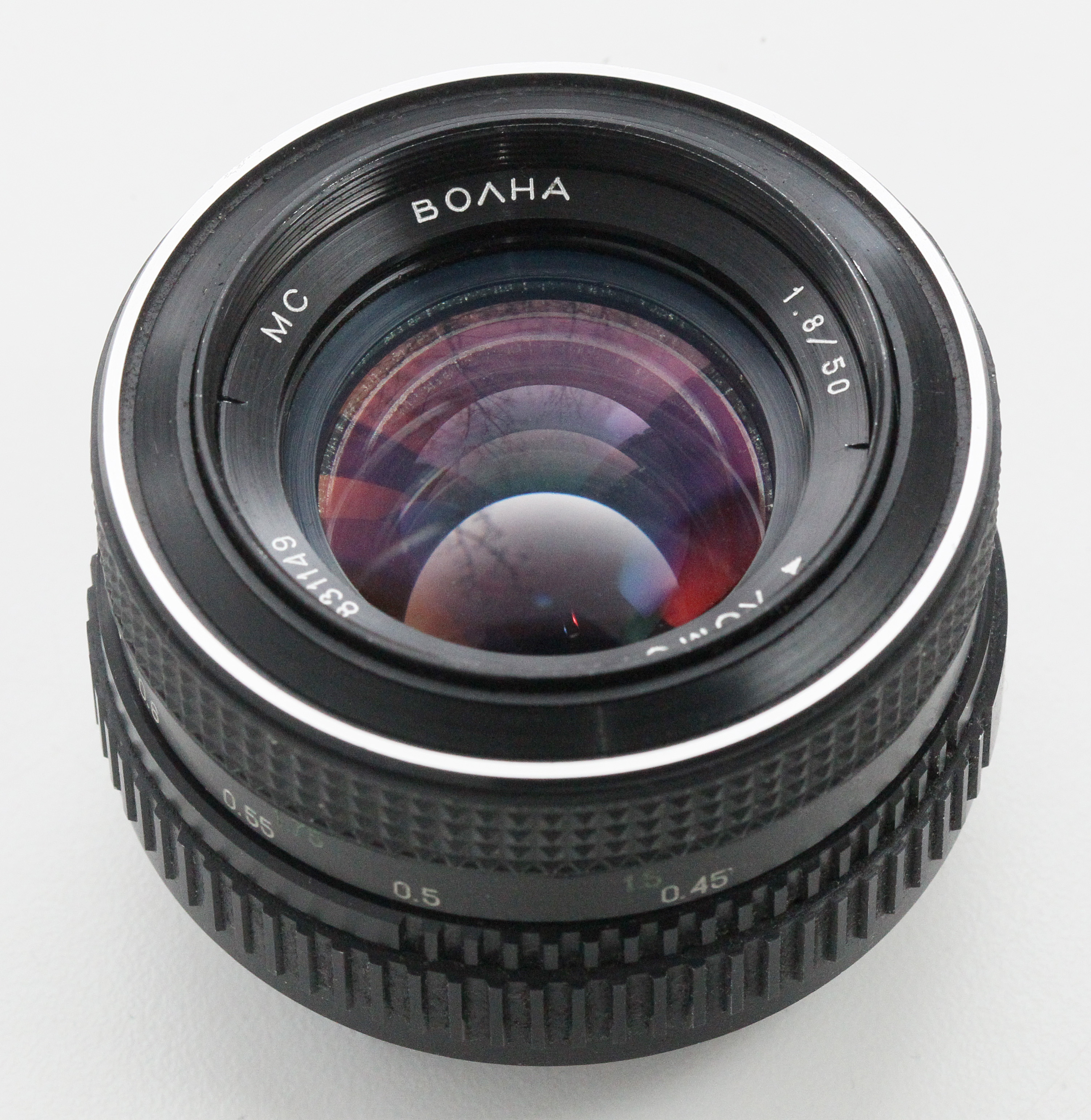 'MC Volna' 1,8/50 mm lens for 'Almaz' SLRs